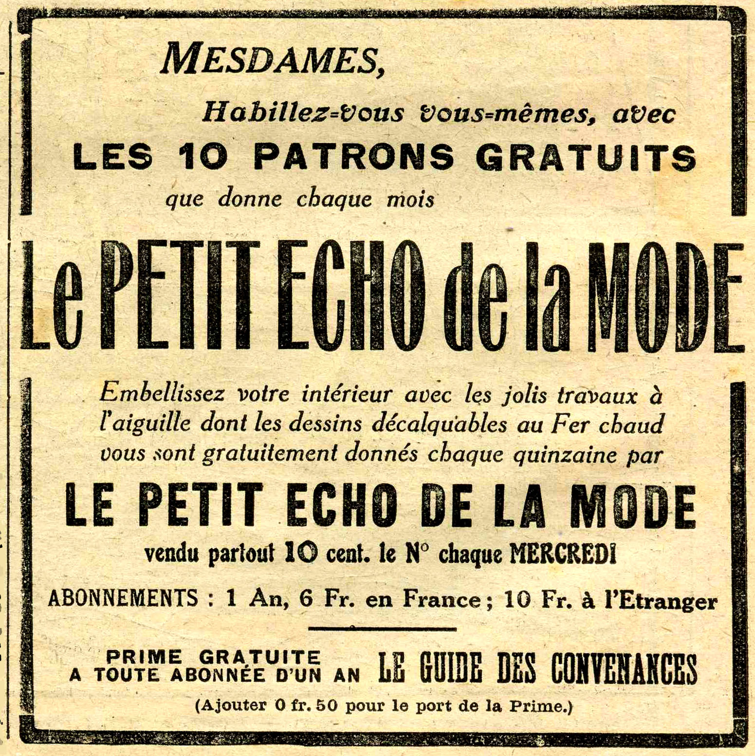 Advertisement for Le Petit Echo de la Mode in French periodical Le Pèlerin